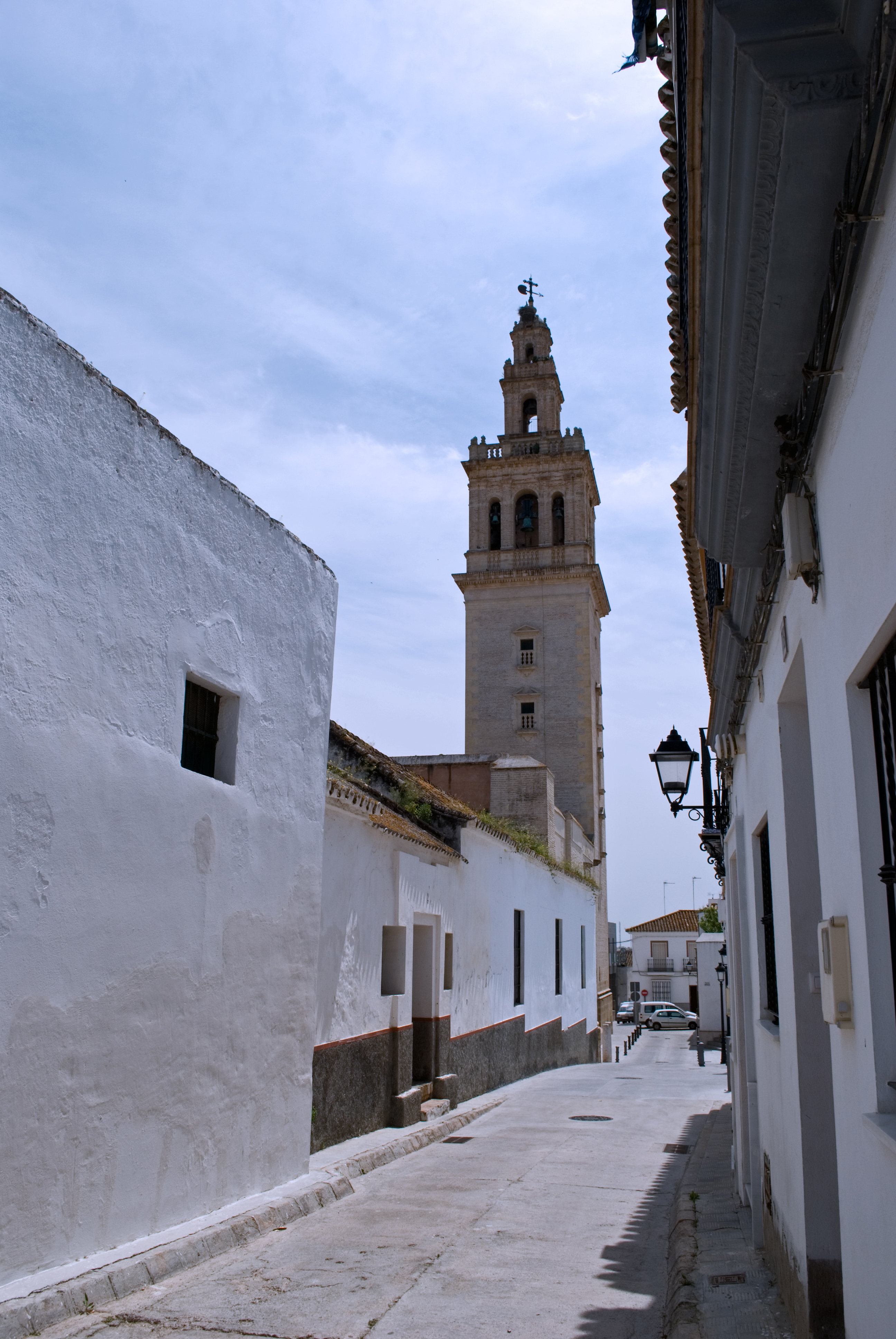 Torre de la iglesia de Santa María de la Oliva, Lebrija (provincia de Sevilla).